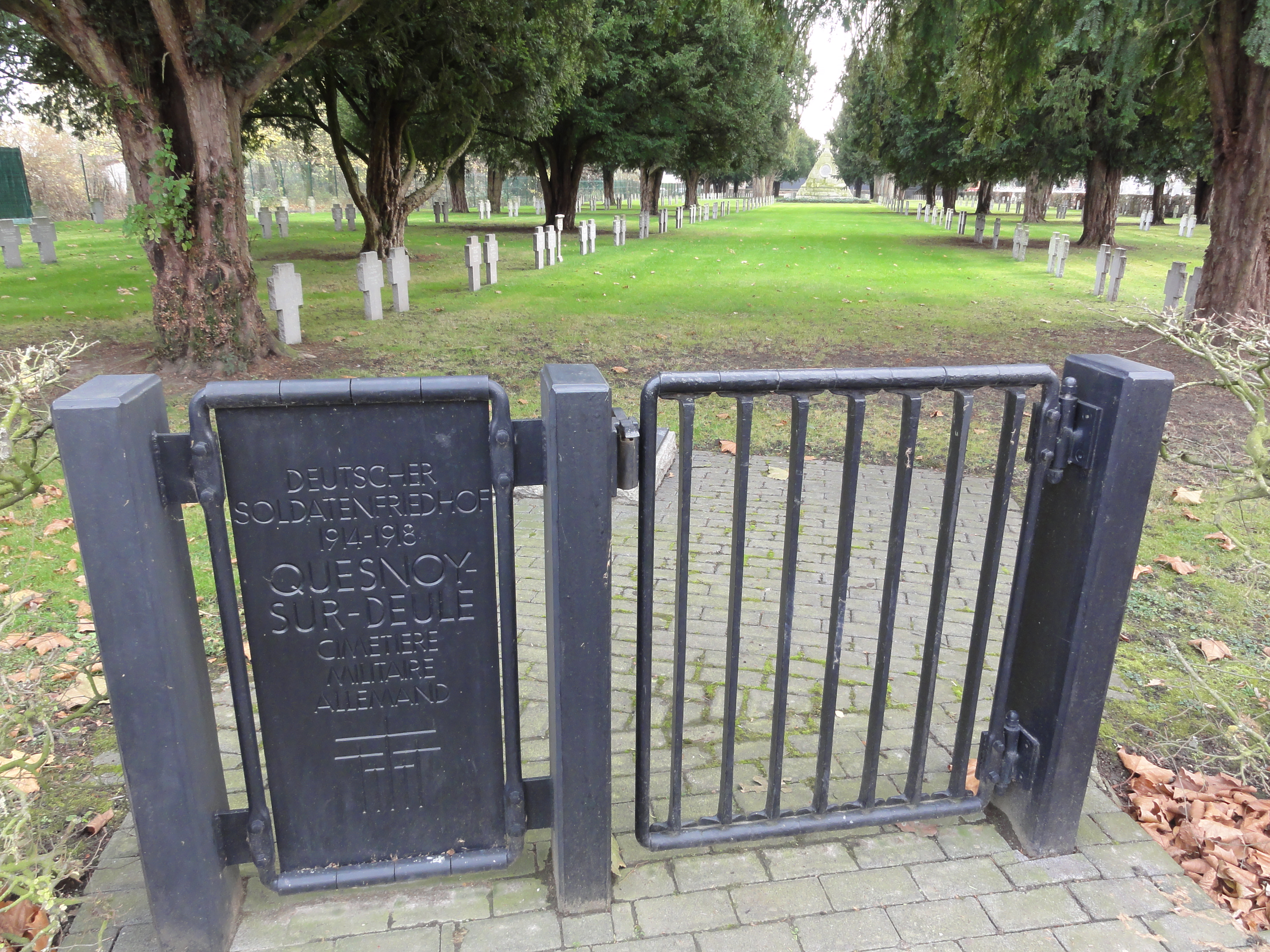 Deutscher Soldatenfriedhof Quesnoy-sur-Deûle in Quesnoy-sur-Deûle